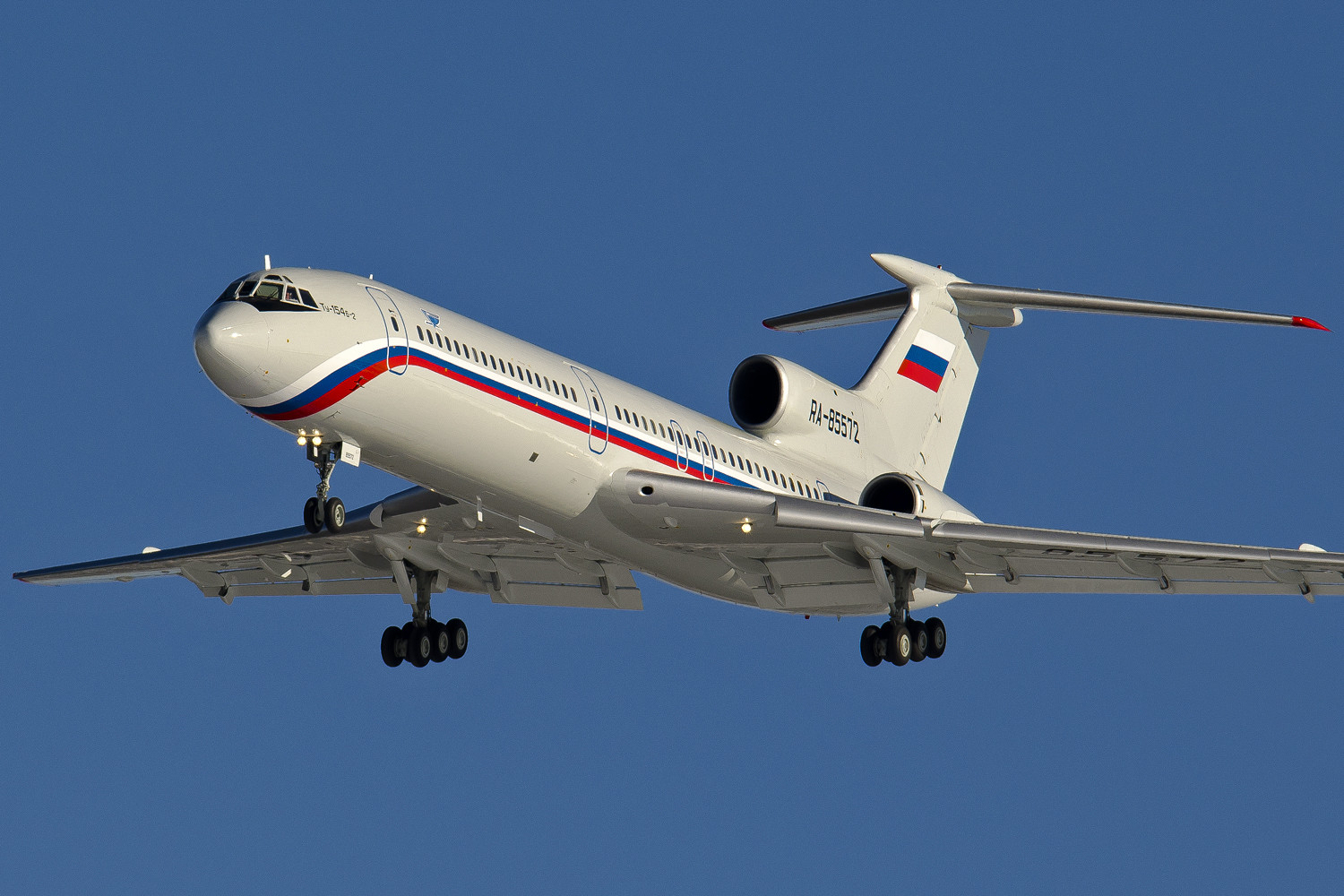 Tupolev Tu-154B-2 (RA-85572) on final approach at Chkalovsky Airport